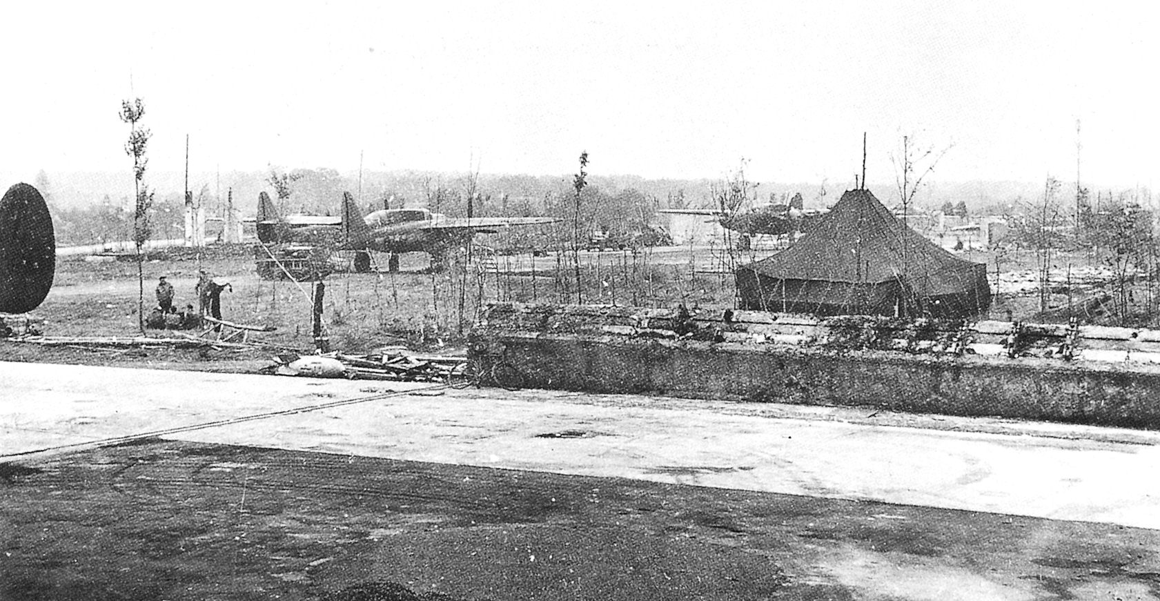 425th Night Fighter Squadron Coulommiers ALG France